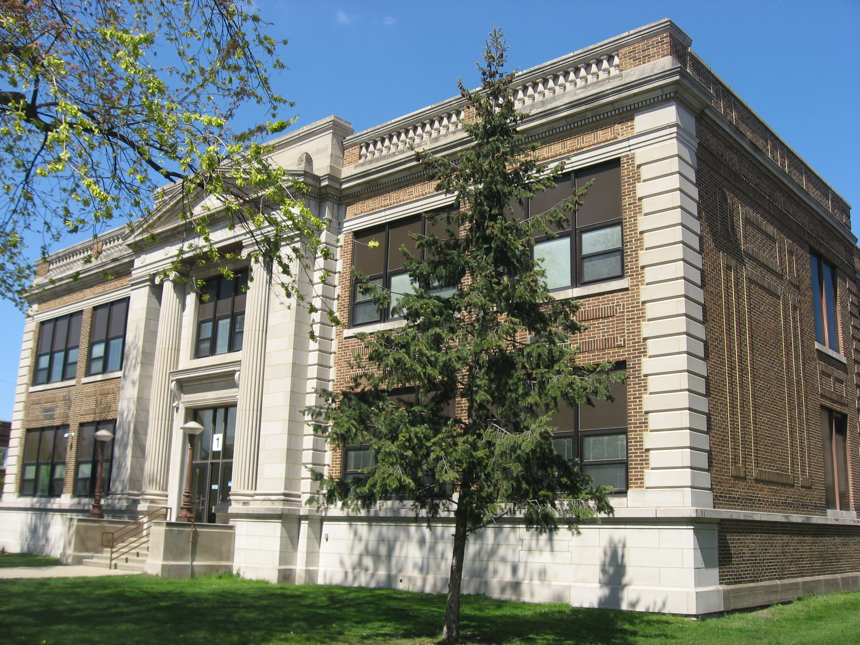 Front of the Whiting Public School, located on the northeastern corner of the junction of 119th Street and Oliver Avenue in Whiting, Indiana, United States. It was built in 1924.